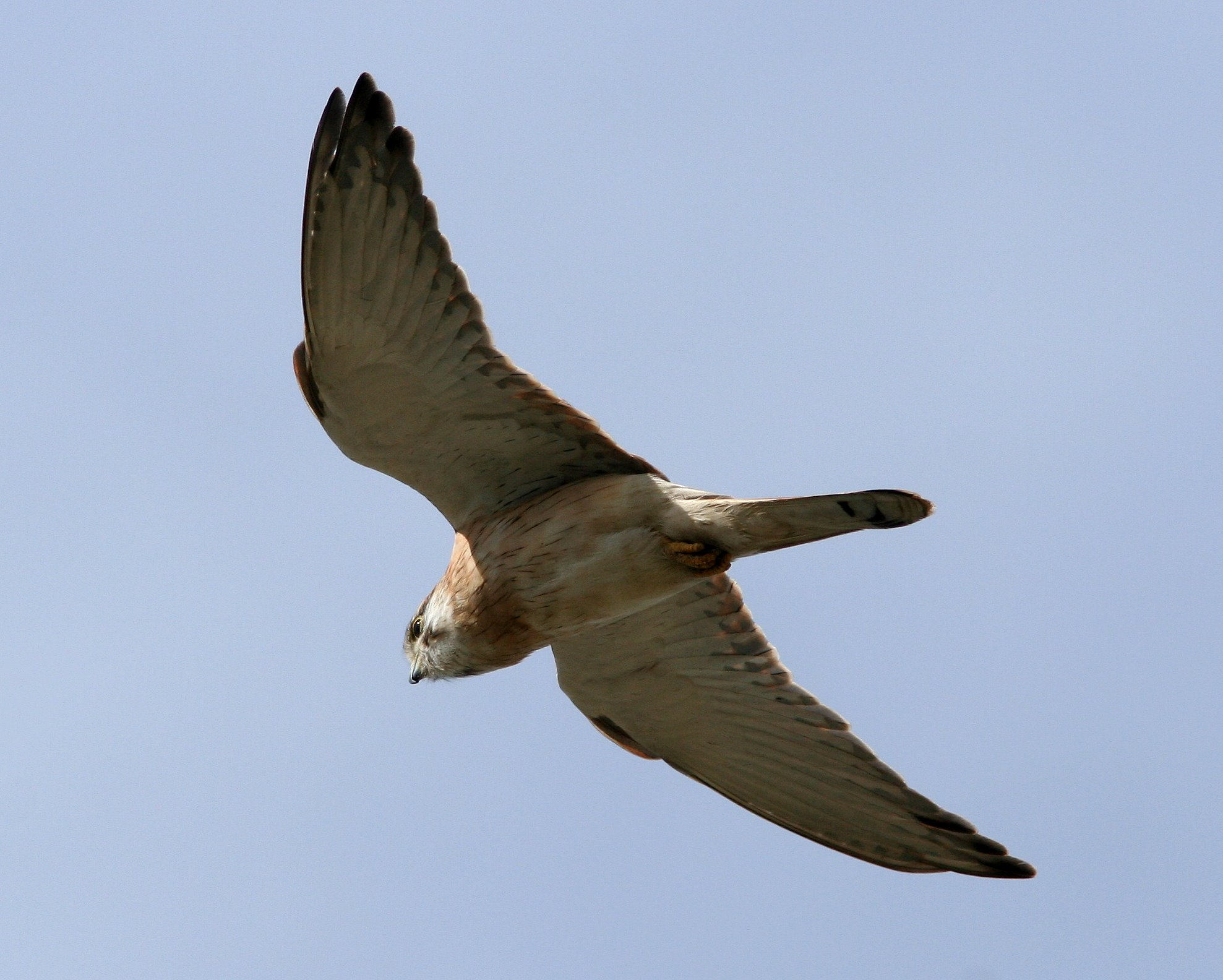 Nankeen Kestrel, Falco cenchroides, female in flight